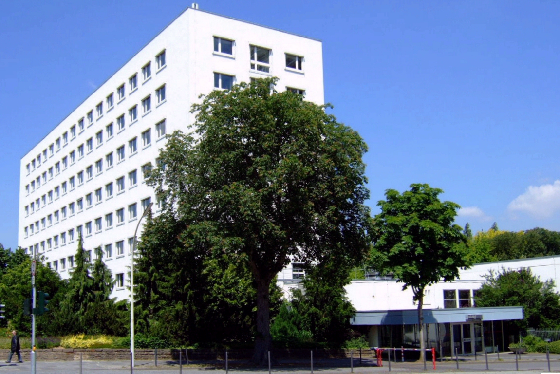 “Old Highrise”, extension of the former Parliament Building (Bundeshaus) in Bonn.